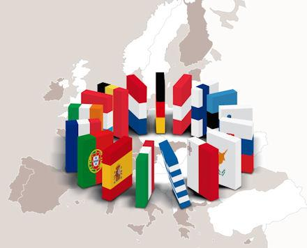 Graphic "When Greece falls" presented by Dutch government on 21 June 2011, speaking of European sovereign debt crisis